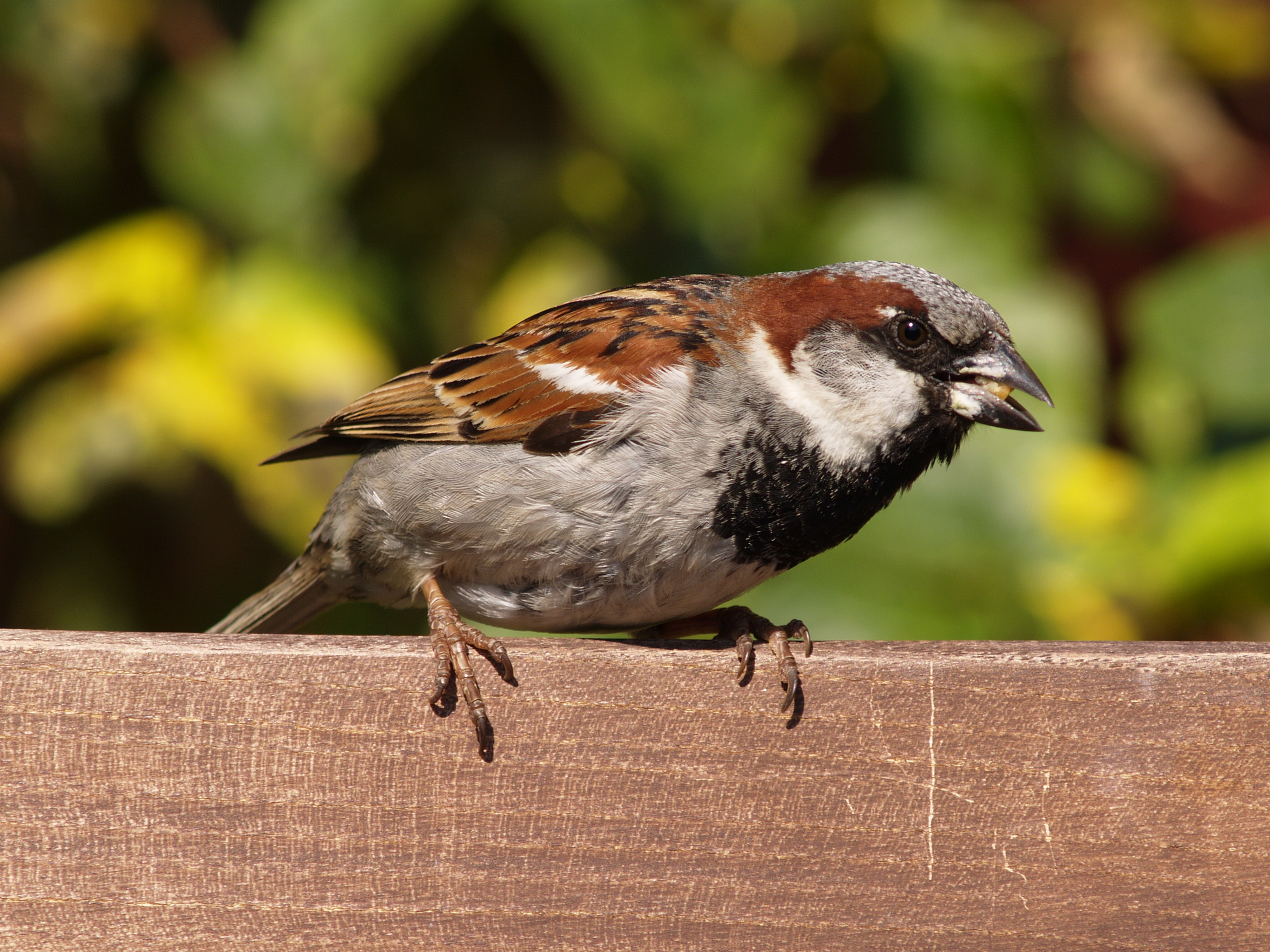 Sparrow on a chair